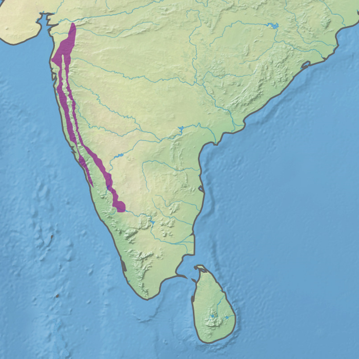 Ecoregion IM0134 - North Western Ghats moist deciduous forests (in purple)